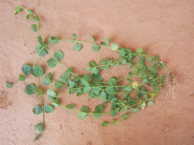 Uprooted Drymaria cordata found in Panchkhal Valley, Nepal.